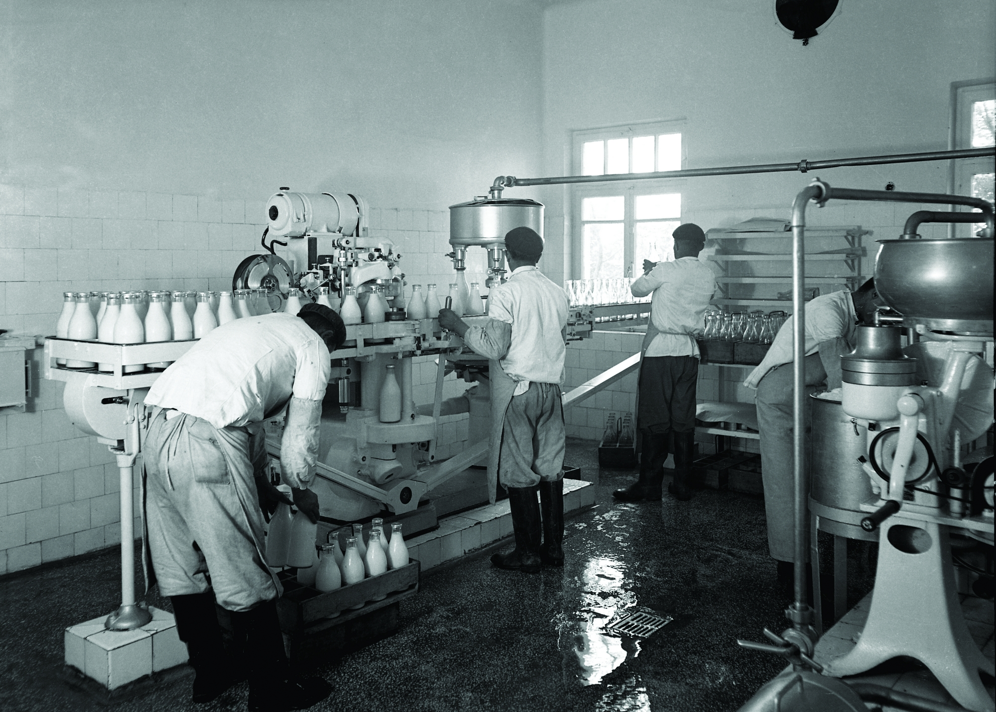 Wine and Juice Factory and Beer Factory were founded in 1925 and 1933 respectively. Pasteurized Milk Factory, yogurt, butter and cheese plants were opened. Ice Factory was able to produce 4 tonnes of ice daily. The first zoo in Ankara was opened in the Atatürk Forest Farm. In 1933, they began to display some animals on a small garden behind the building of Farm Directorate. Atatürk Orman Çiftliği Pastörize Süt Fabrikası, çalışanlar, 1939 1925’te Şarap ve Meyve Suları Fabrikası, 1933’te Bira Fabrikası kuruldu. Pastörize Süt Fabrikası, yoğurt, tereyağı, peynir imalathaneleri açıldı. Buz Fabrikası’nda günde dört ton buz üretiliyordu. Kent içerisinde Atatürk Orman Çiftliği ürünlerinin Ankara halkına ulaşmasını sağlayan dükkânlar açıldı. Ankara’nın ilklerinden biri, Hayvanat Bahçesi de Atatürk Orman Çiftliği aracılığıyla gerçekleşmiştir. 1933’te Çiftlik Müdürlüğü binasının arkasında küçük bir bahçe içerisinde bazı hayvanların teşhirine başlanmıştı.